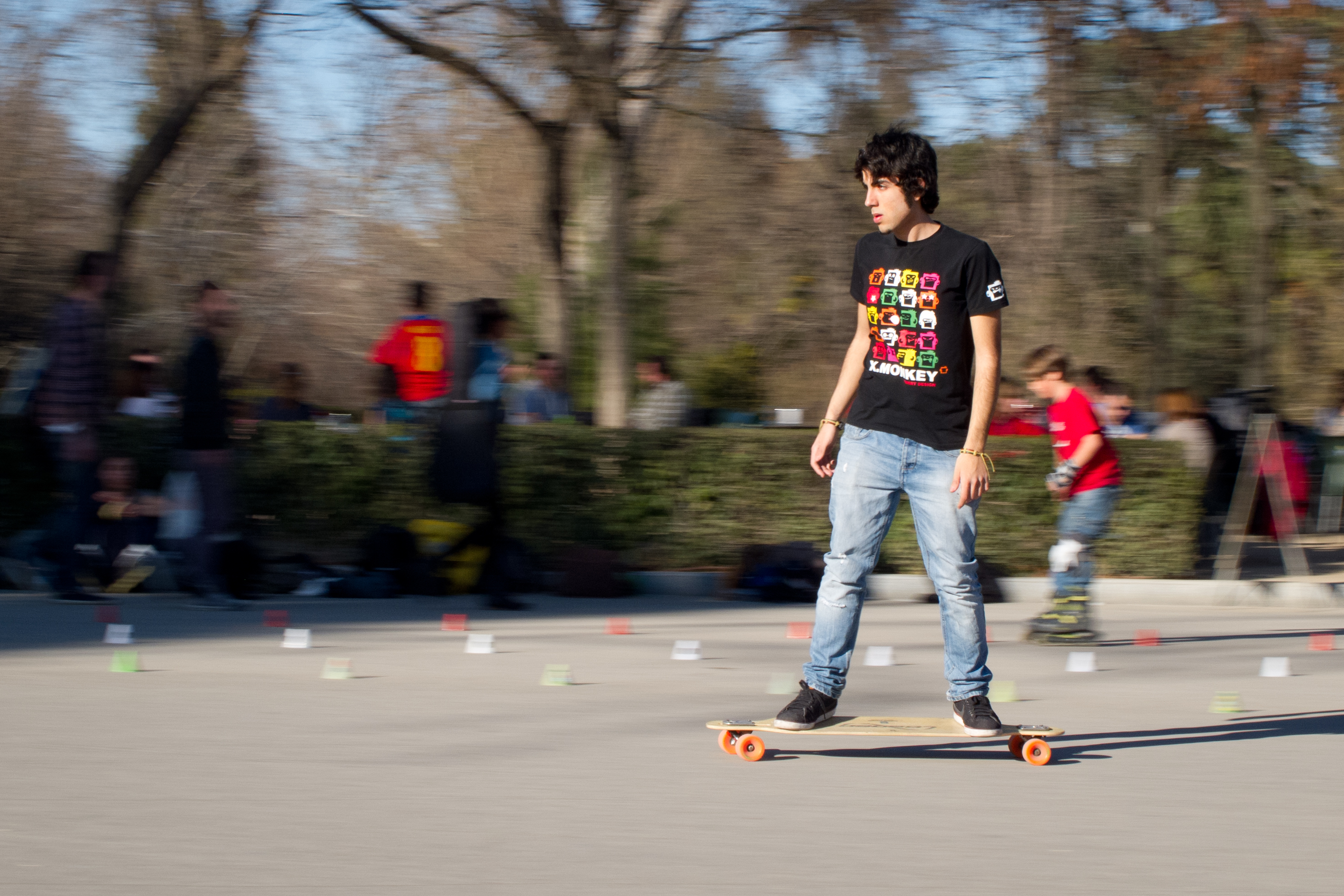 Panning of a skater boy.